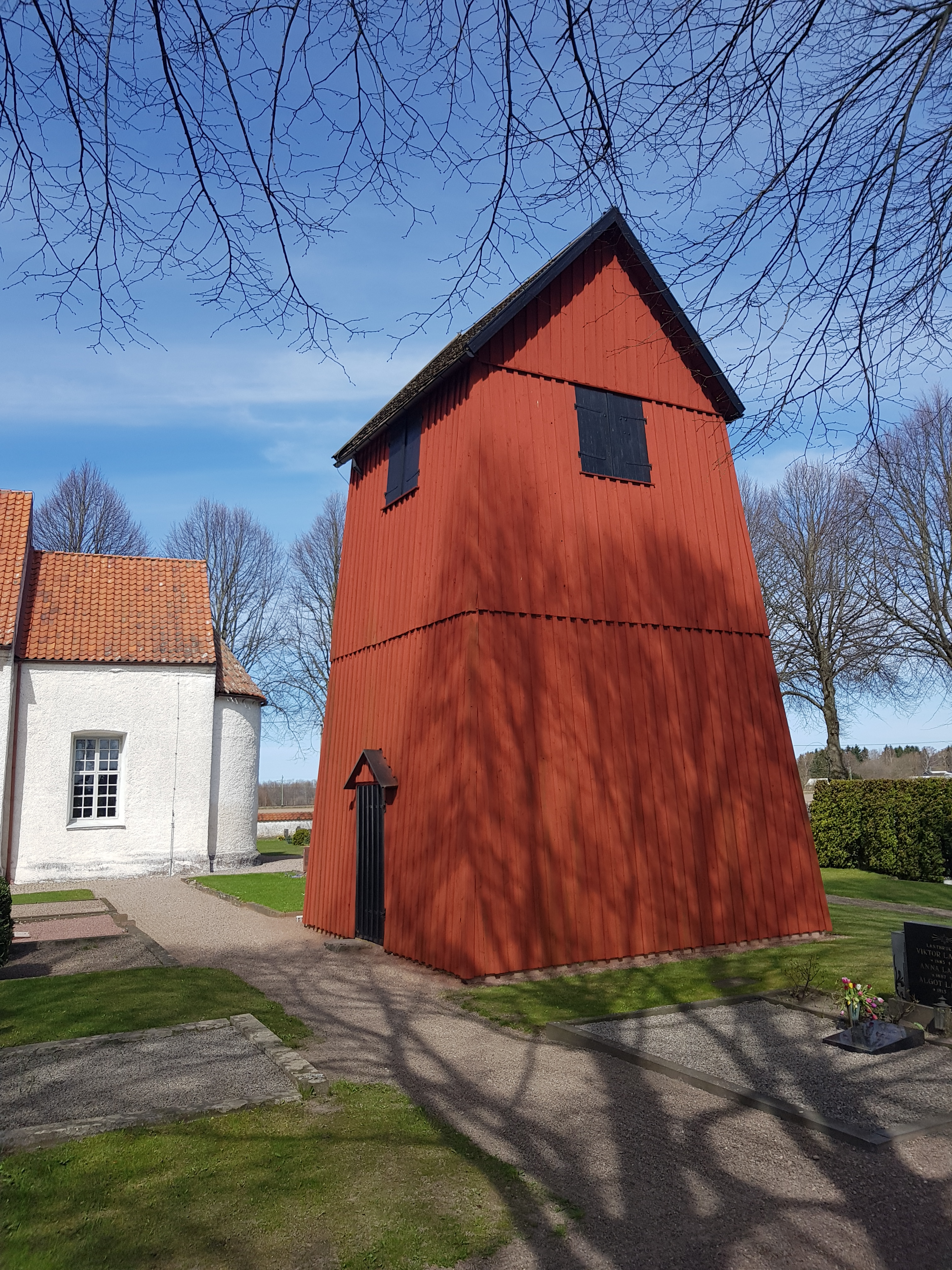 The clock tower of Gualövs churh from 1800:th century.